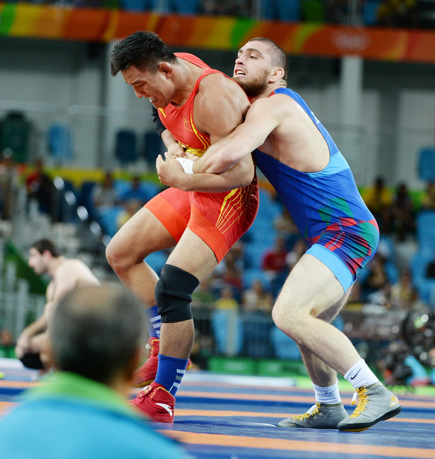 Wrestling at the 2016 Summer Olympics, Sharifov vs Shengfeng